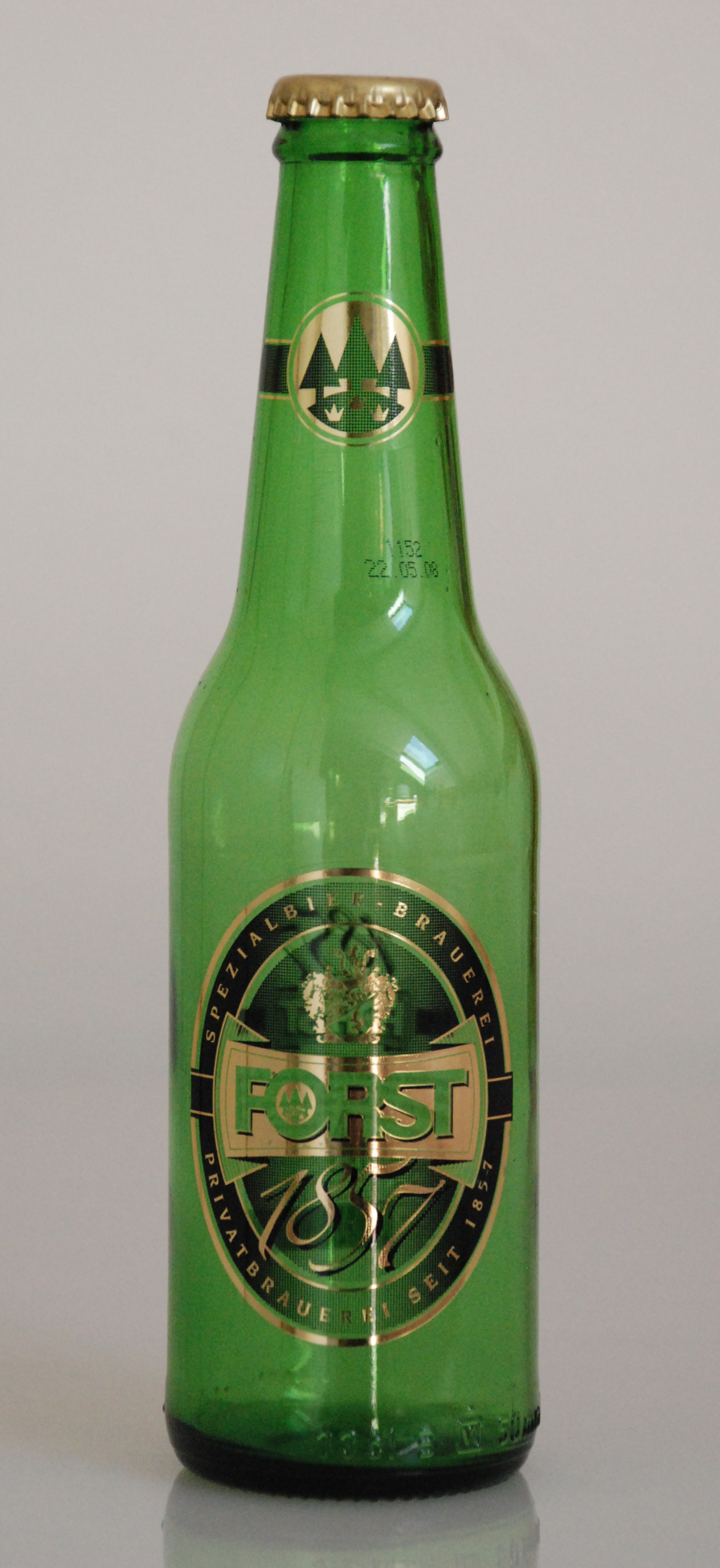 Empty 33cl bottle of Forst beer